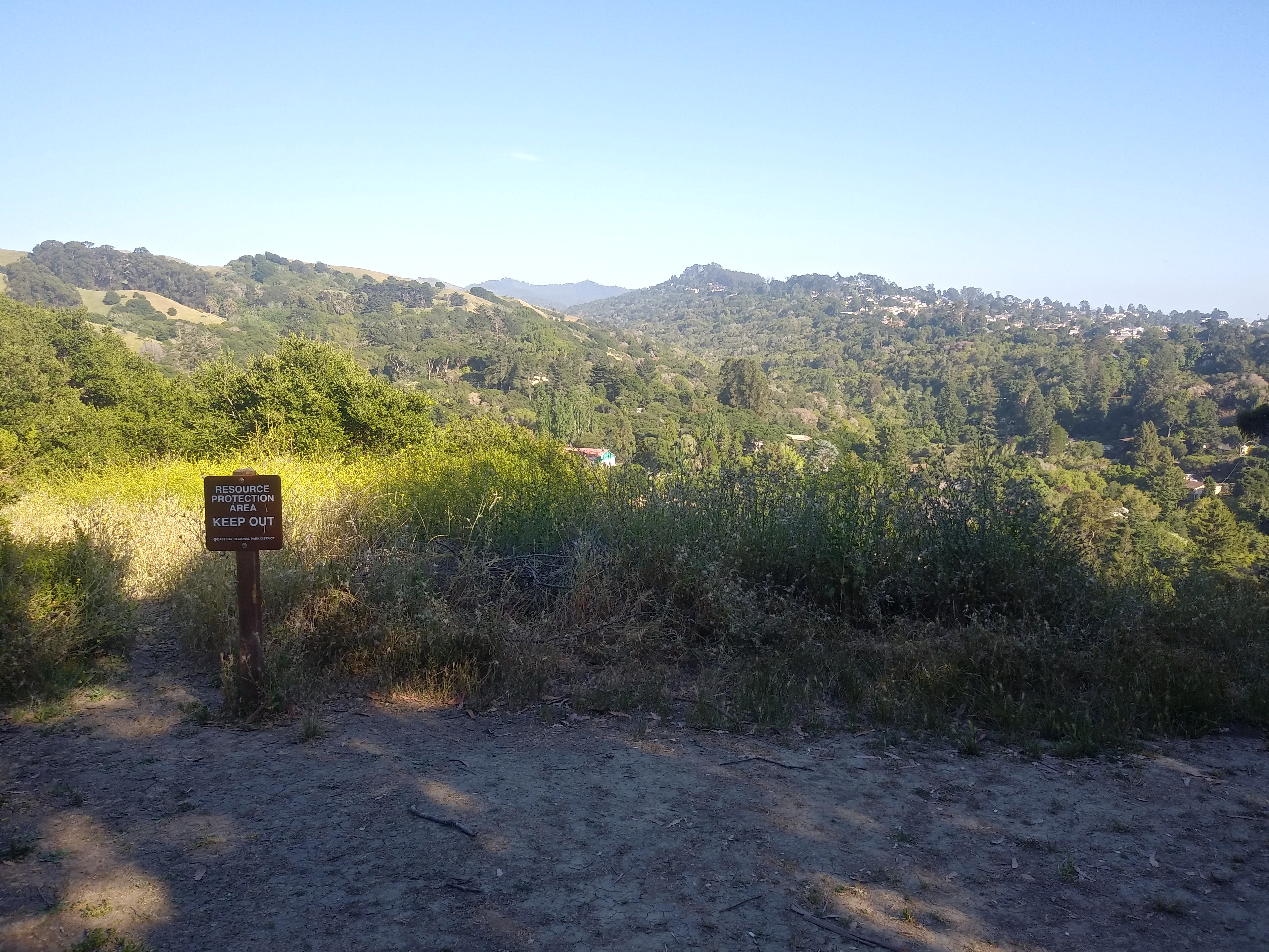 View of the canyon at Wildcat Canyon Regional Park